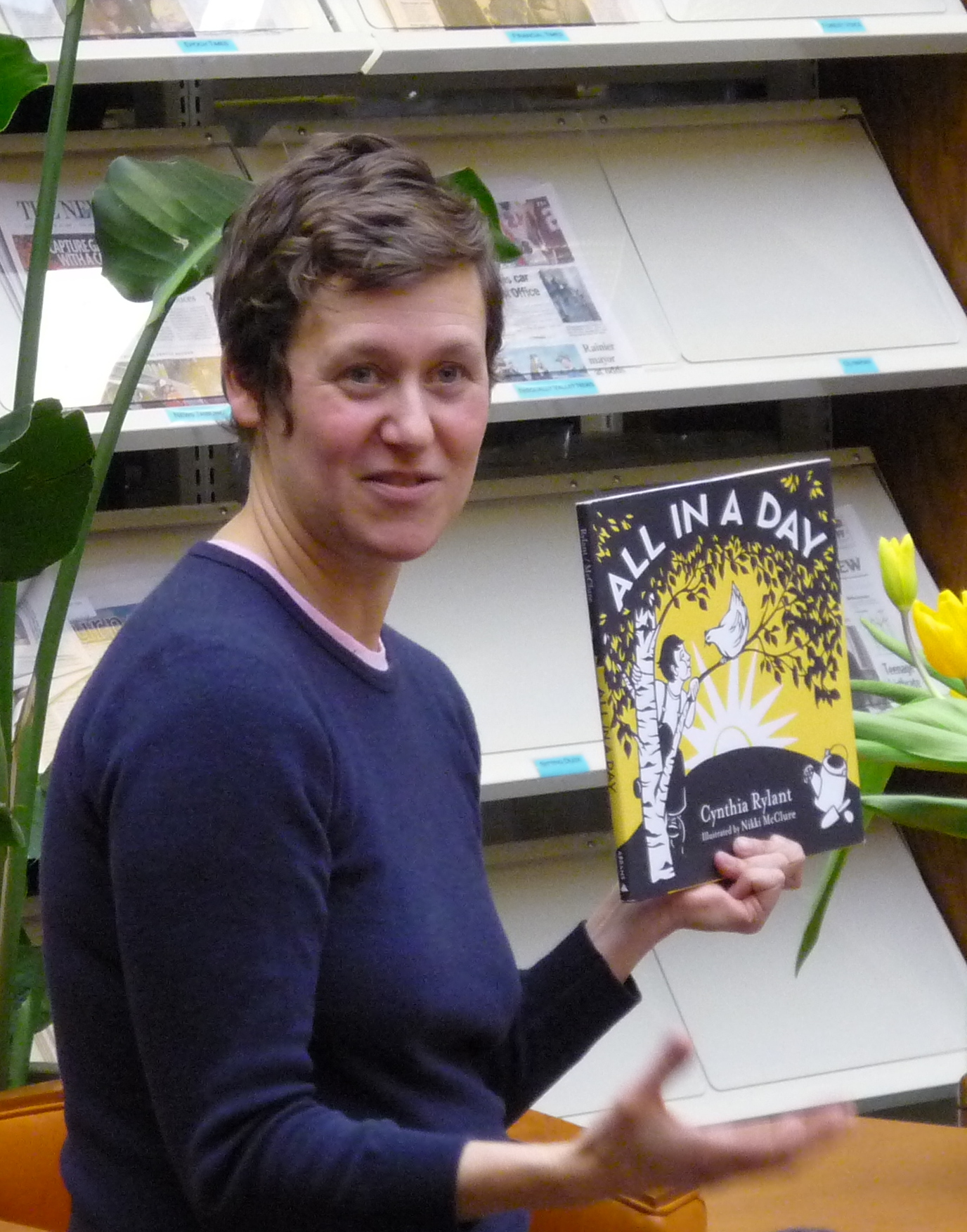 Children's author and papercut artist Nikki McClure at Olympia Timberland Library reading from All in a Day